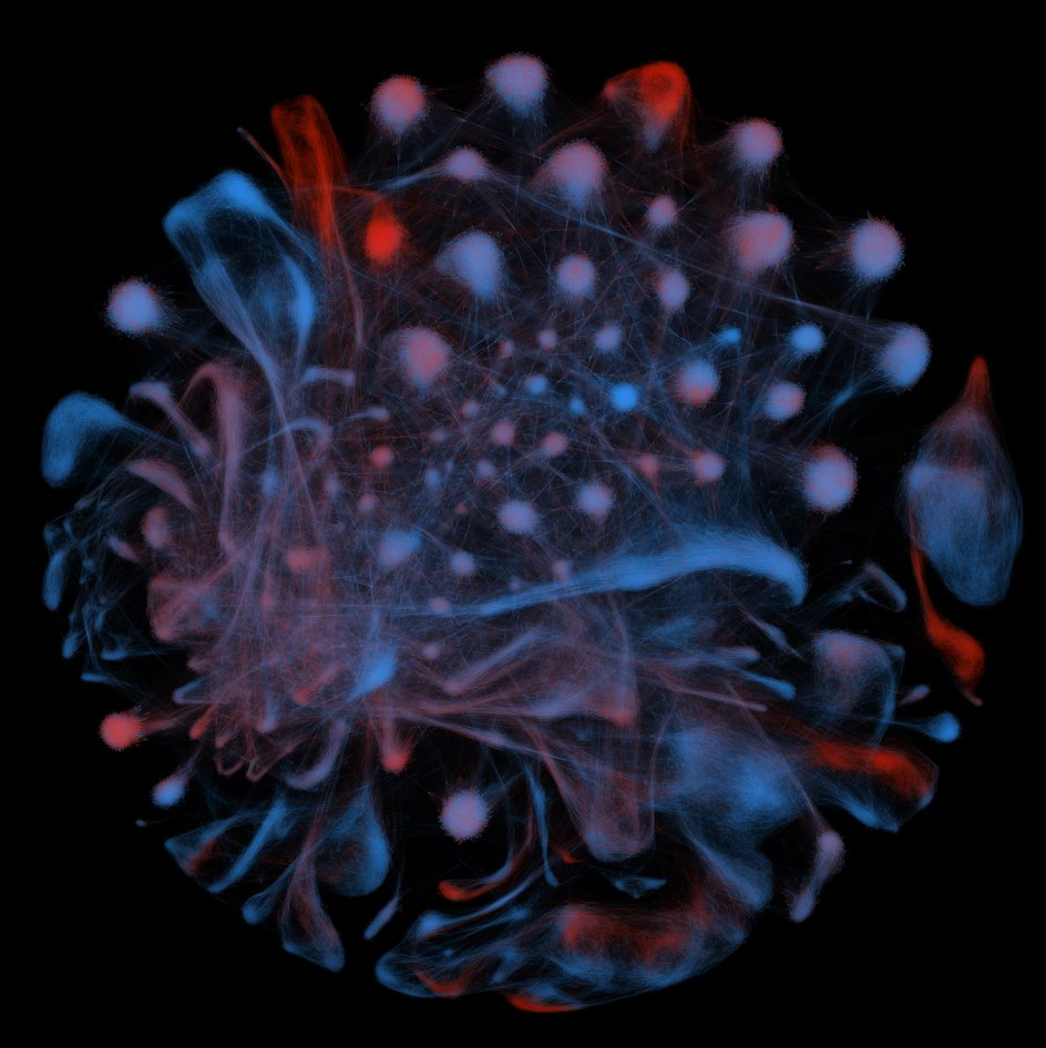 Roughly 100,000 cells from rhesus macaques are shown here, with genetically and phenotypically similar cells clustered together. Every dot represents a single cell and the lines connecting them reflect how similar they are. Red cells are from monkeys infected with simian-human immunodeficiency virus while blue cells are from uninfected ones. Distinguishing the red and blue cells helps to show which cells change and malfunction during infection, despite treatment with antiretroviral drugs.